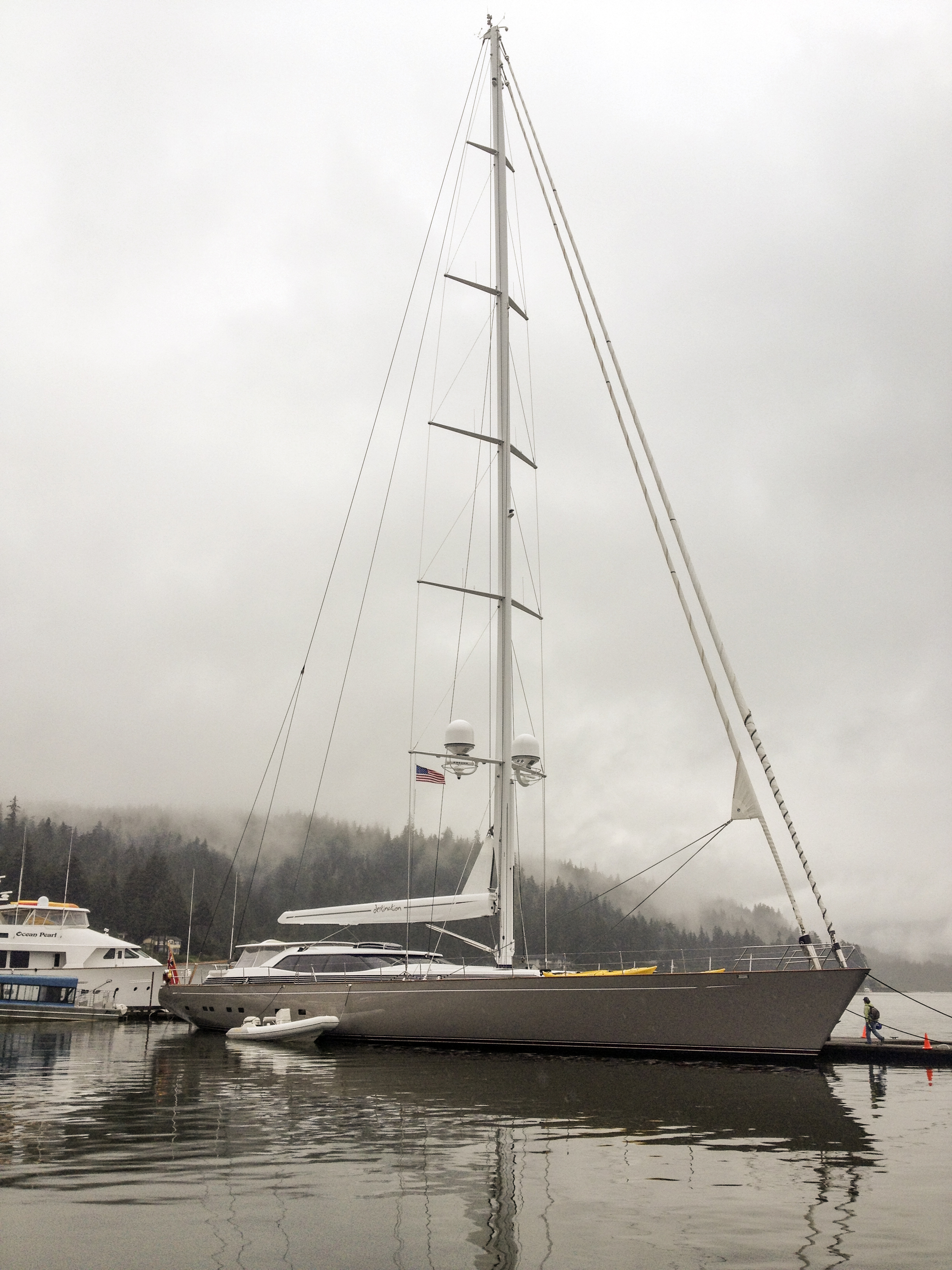 Destination docked in Statter Harbor, Juneau, Alaska